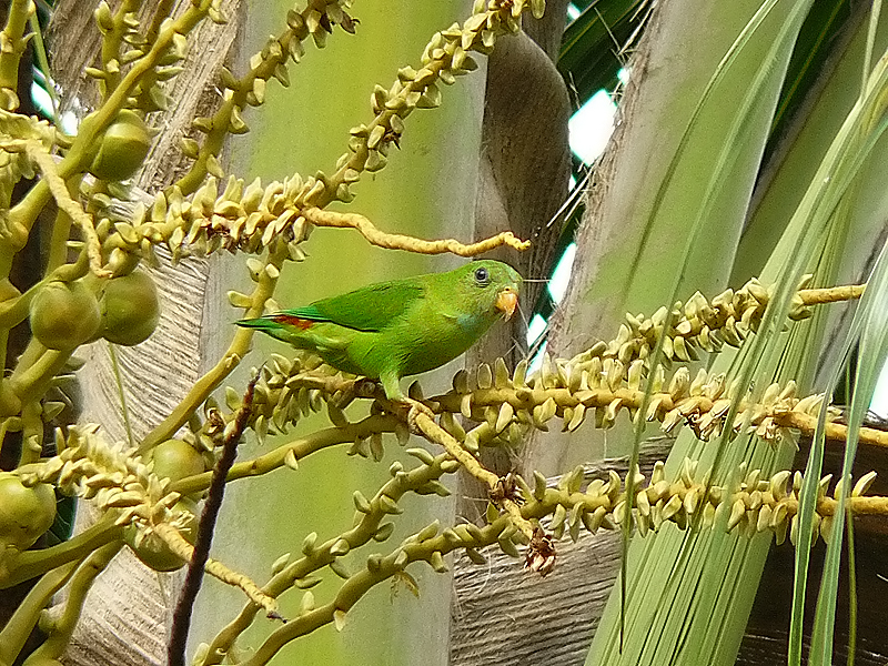 Vernal Hanging Parrot Loriculus vernalis, Kannur, Kerala, India. The distinctive red rump seen in this photo can help positively identify this bird as the Vernal Hanging Parrot. Saw this bird in a coconut tree growing in the backyard. Very hard to detect in canopy due to its green plumage.